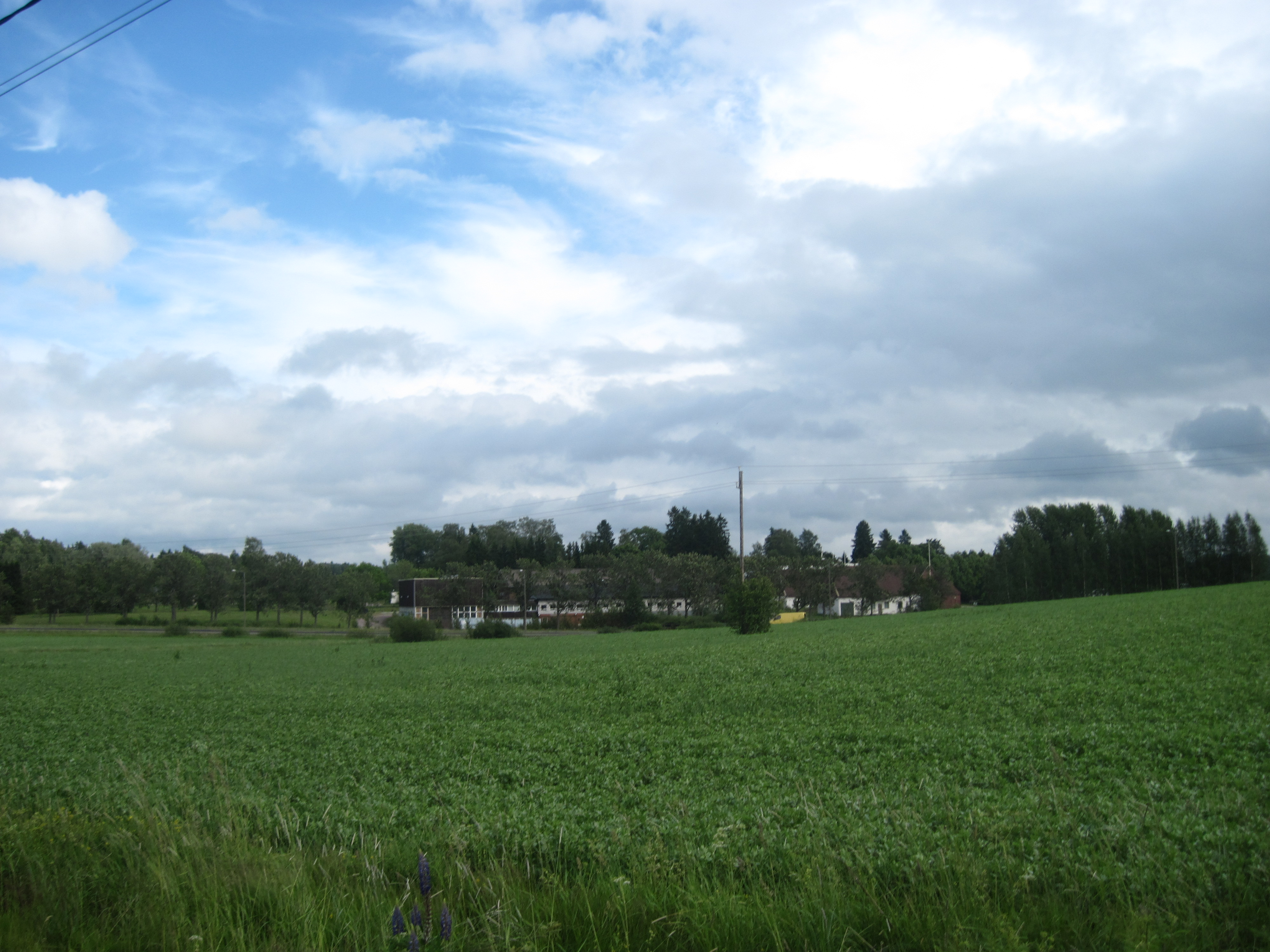 Fields of Paijala, Tuusula, Finland